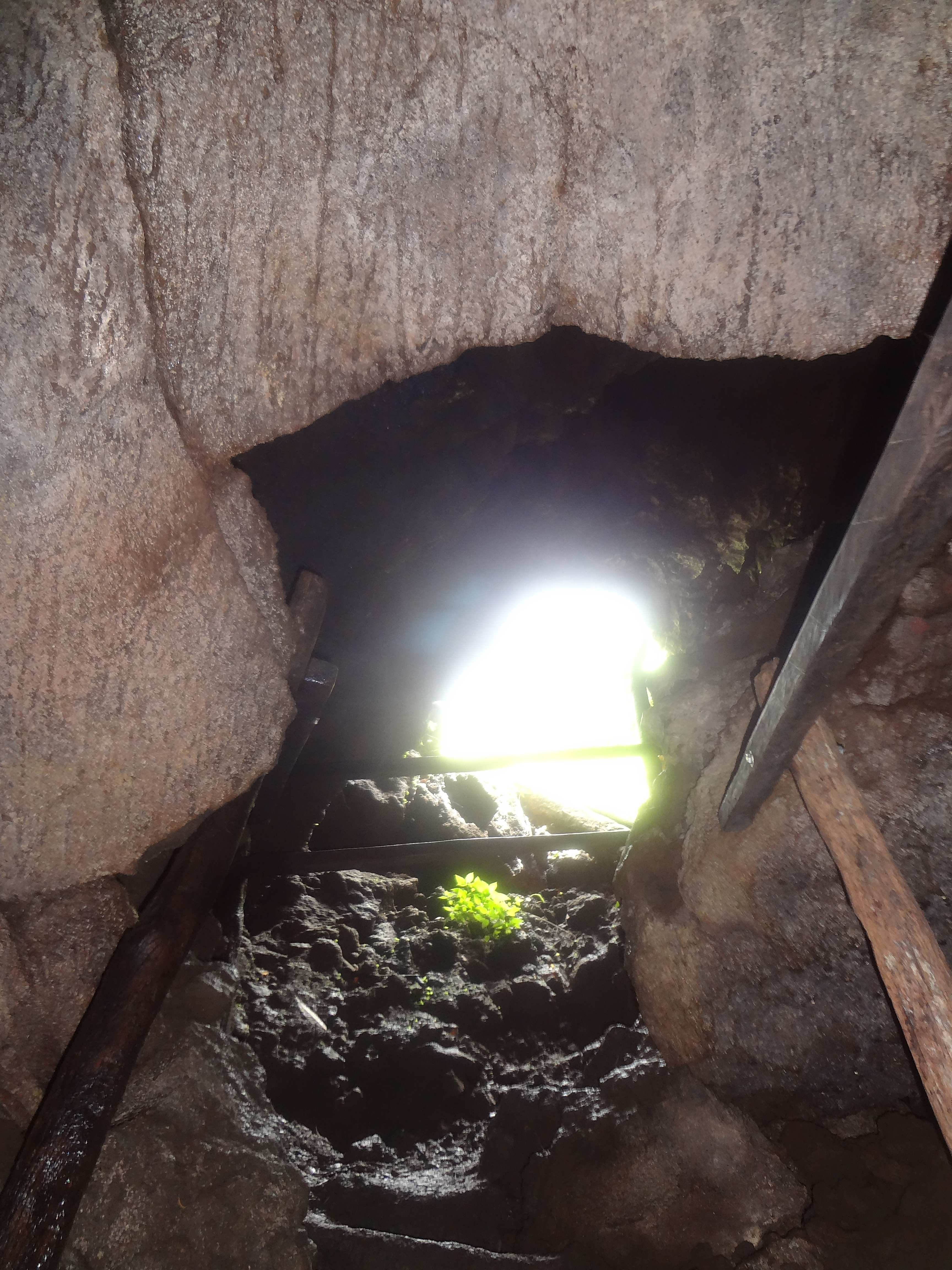 (lava tunnel) El Chato Reserve, Santa Cruz Highlands, Galápagos), inside view